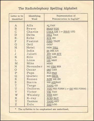 The description of the ICAO Radiotelephony Spelling Alphabet, from the pamphlet included in an audio recording of the alphabet sent to all ICAO member states in 1955.